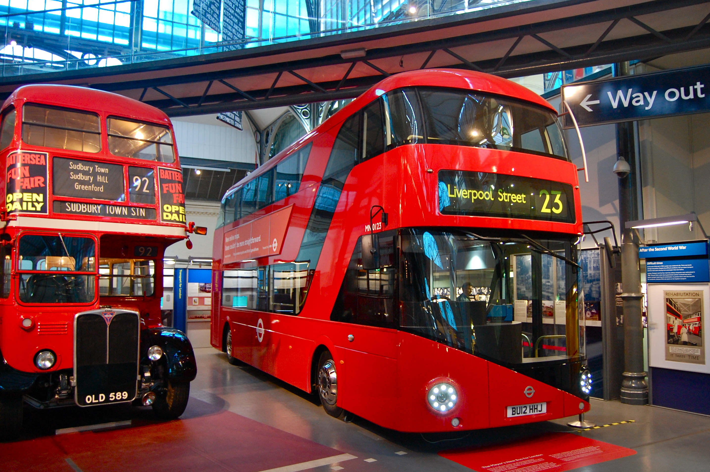 A full size scale mock-up of the planned New Bus for London, pictured here in the London Transport Museum in Covent Garden, London, next to the last standard London Transport RT class bus, the 1954 built RT4825 (reg. OLD 589), an AEC Regent III RT double-decker with Park Royal bodywork.